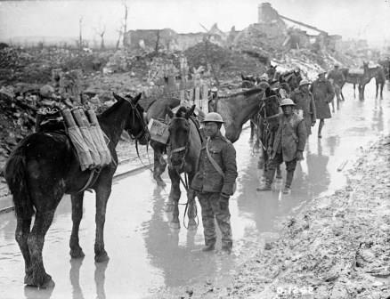 Ammunition Column Pack horses transporting ammunition to the 20th Field Battery, 5th Canadian Field Artillery Brigade, Vimy Ridge April 1917. The 20th Field Battery was supported by the 2nd Canadian Divisional Ammunition Column, as authorized 15 March 1915